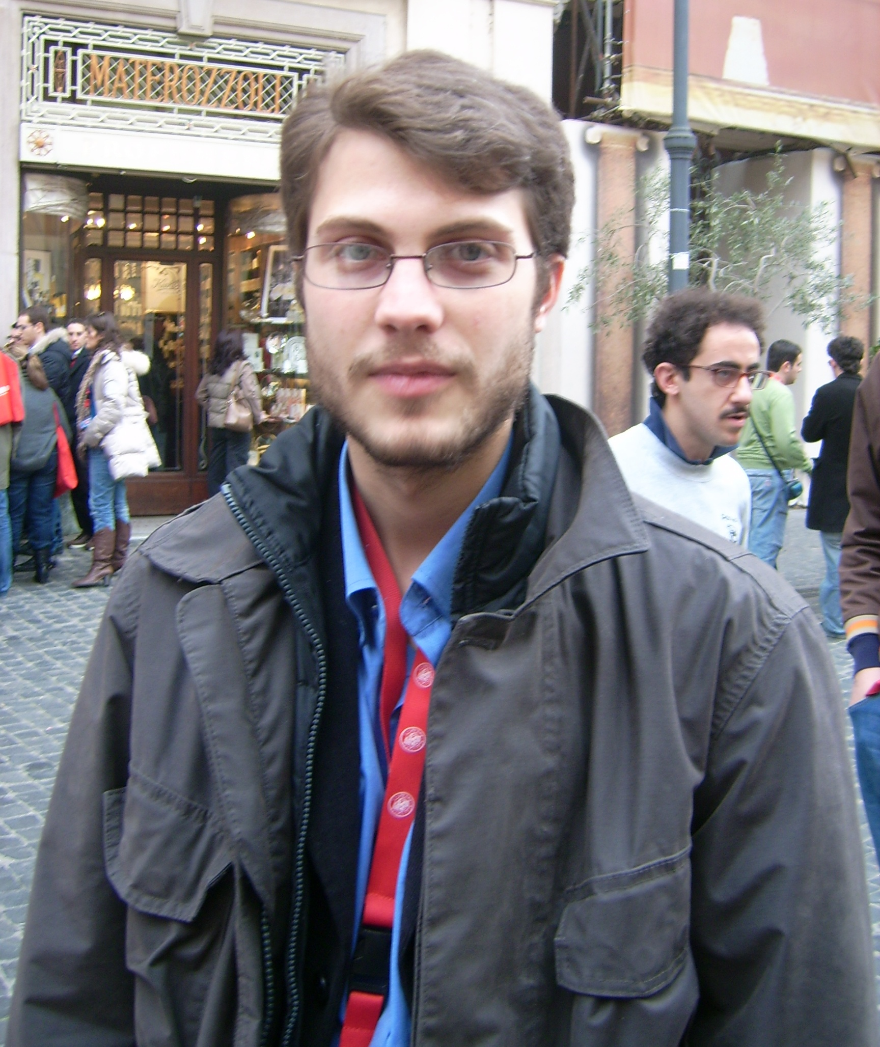 Fausto Raciti National Congress of the Left Youth, 2007